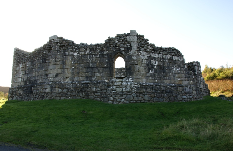 Loch Doon Castle, East Ayrshire, Scotland - view from the east